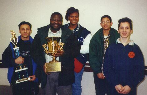 1997 New Jersey State Chess Champions Left to Right: Oscar Rincon '98, Henry Hali (coach), Kimberly McClelland '98 (captain), Joan Santana '00, Louis Sumner '98